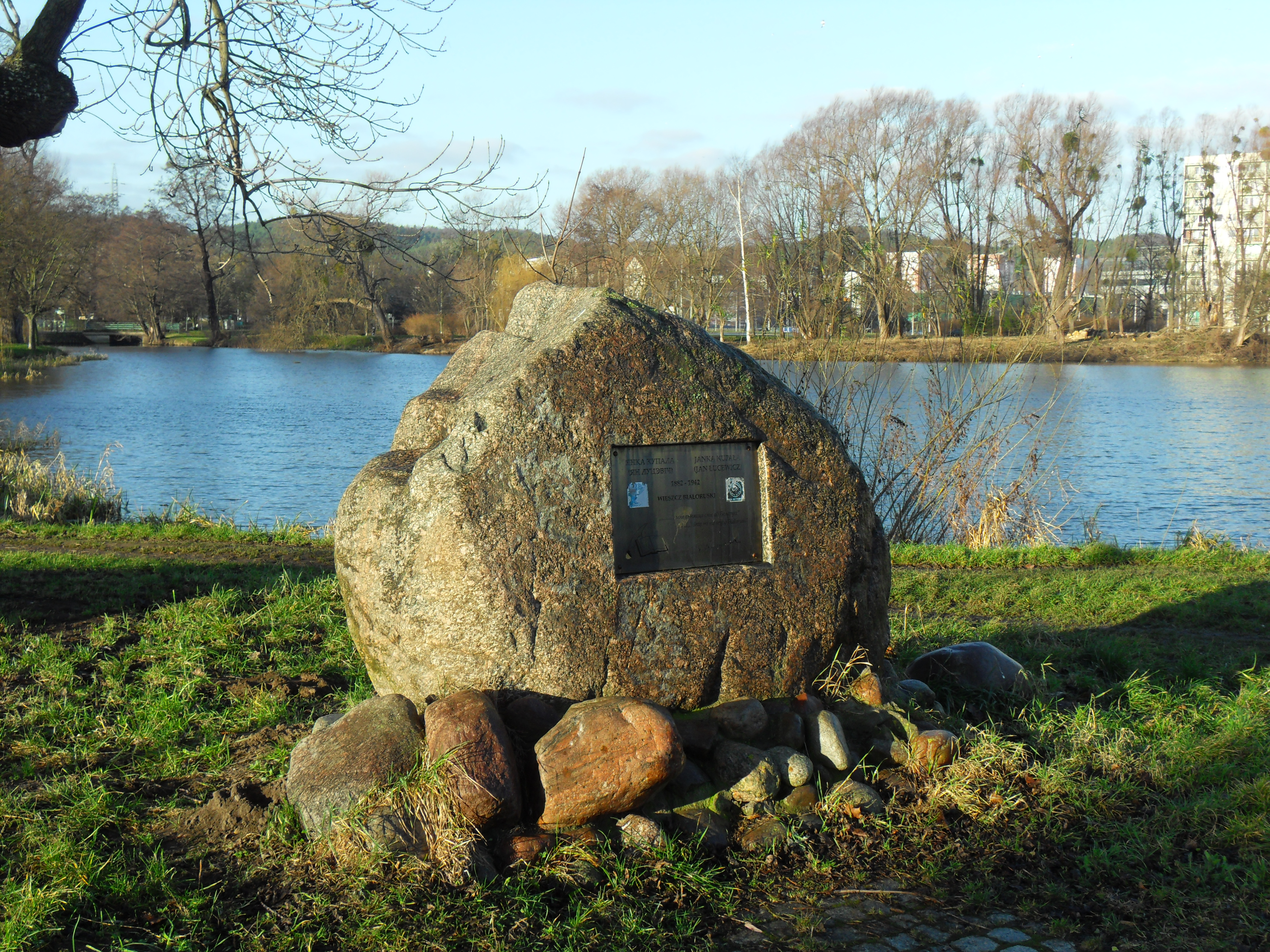 A monument to Yanka Kupala in Gdańsk (Poland).